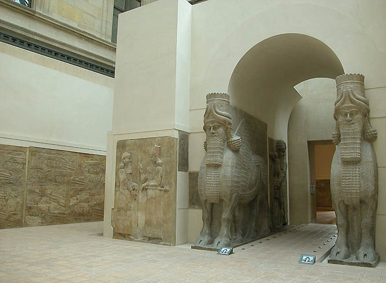 Louvre - Khorsabad King Sargon II and a Dignatary-AO 19873-AO 19874 Winged bull with human head-AO 19857 Winged bull with human head-AO 19858